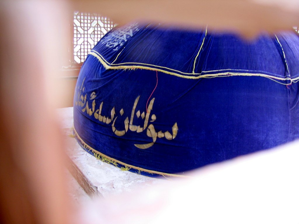 Yarkand (Sache) is an oasis city in the Xinjiang Uygur Autonomous Region of the People's Republic of China. Yarkand Kingdom Cemetery at Altyn Mosque complex.